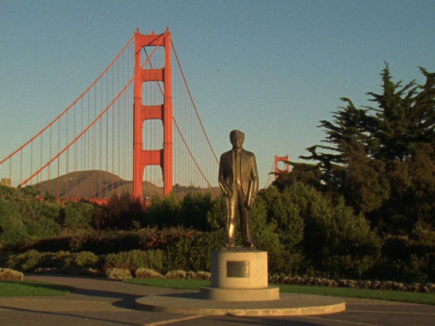 Production still for Jenni Olson's 2005 documentary film, The Joy of Life.